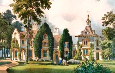 Currier and Ives print "Sunnyside" of the home of the American author Washington Irving in Tarrytown, New York. Courtesy of the New York Public Library Digital Collection.